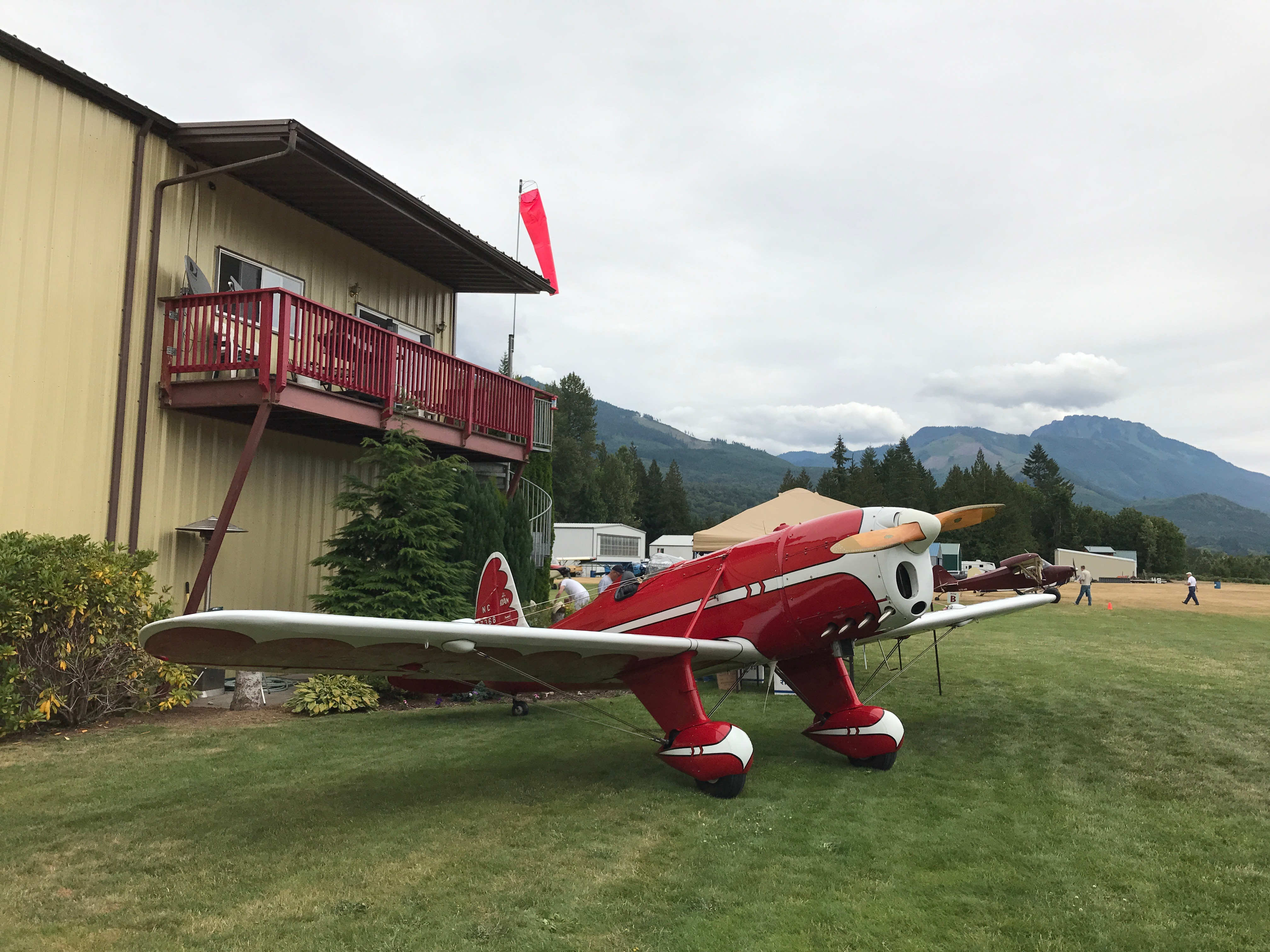 Restored Ryan STA-Special S/N 173 at the North Cascades Vintage Fly-In on July 21 2017 in Concrete Washington United States.